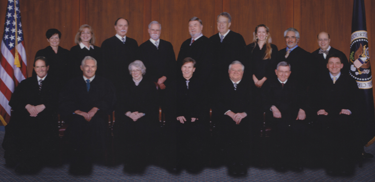 Official photograph of the judges of the United States Court of Appeals for the Federal Circuit as of October 8, 2012.